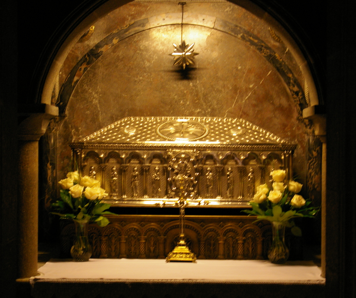 burial-place of Saint James the Greater